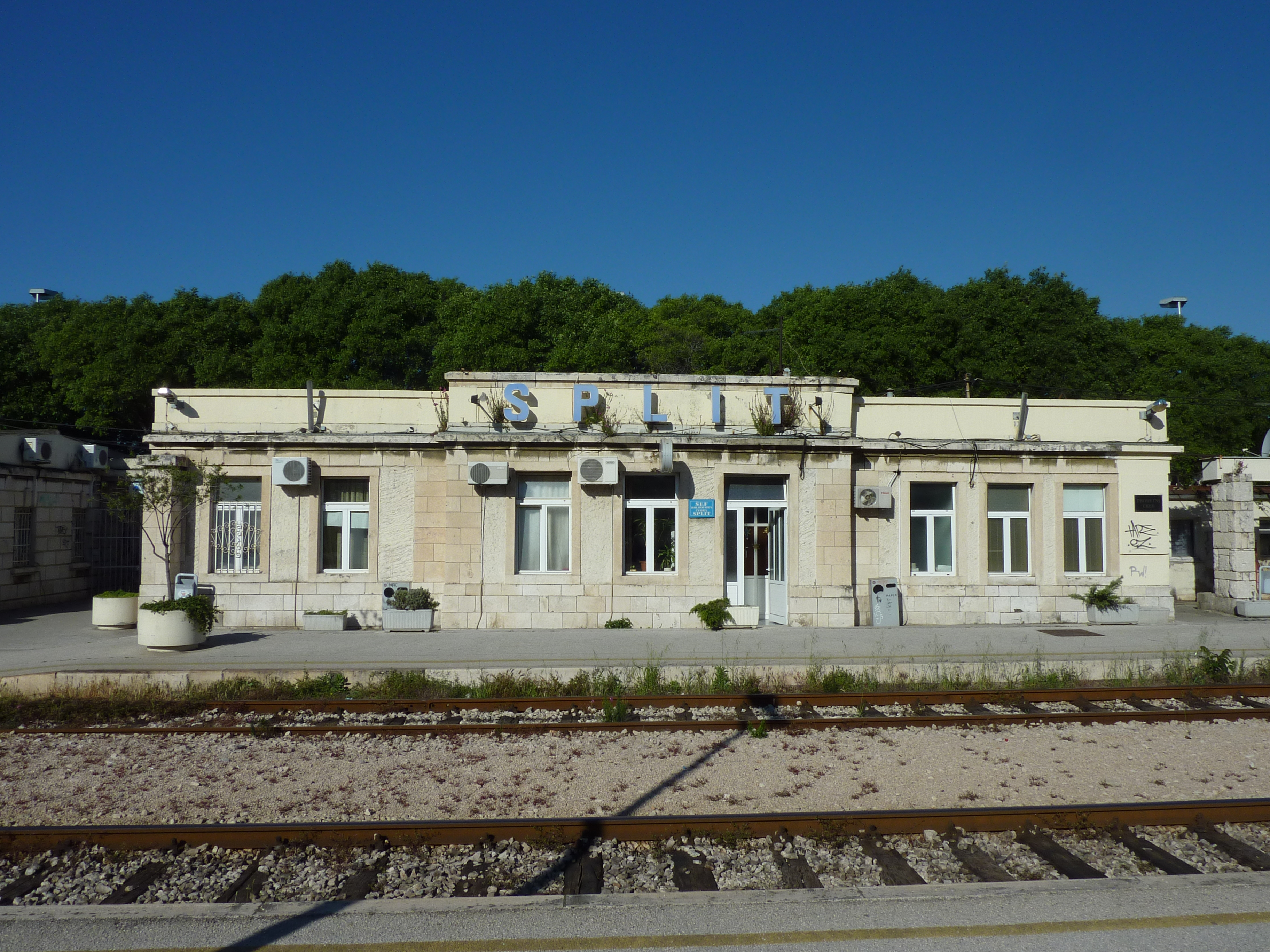 Railway station Split, in Croatia